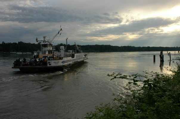 Albion-Fort Langley ferry as seen from Albion